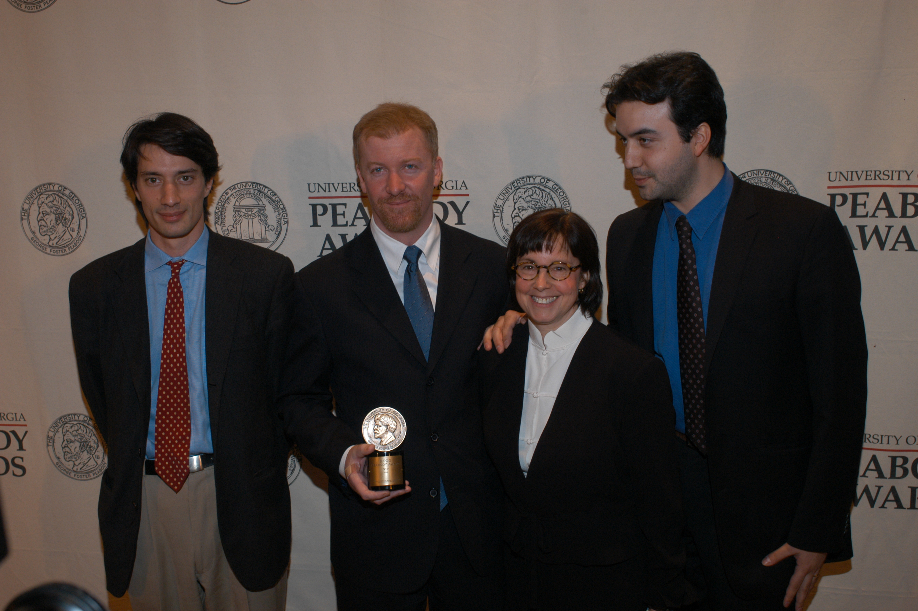 PHOTO CREDIT: ANDERS KRUSBERG / PEABODY AWARDS Gédéon Naudet, James Hanlon, Susan Zirinsky and Jules Naudet at 62nd Annual Peabody Awards Luncheon Waldorf=Astoria Hotel May 19, 2003